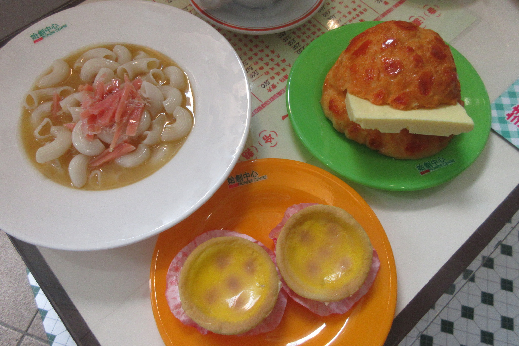 HK 旺角 Mongkok 始創中心 Pioneer Centre exhibition in Oct 2017